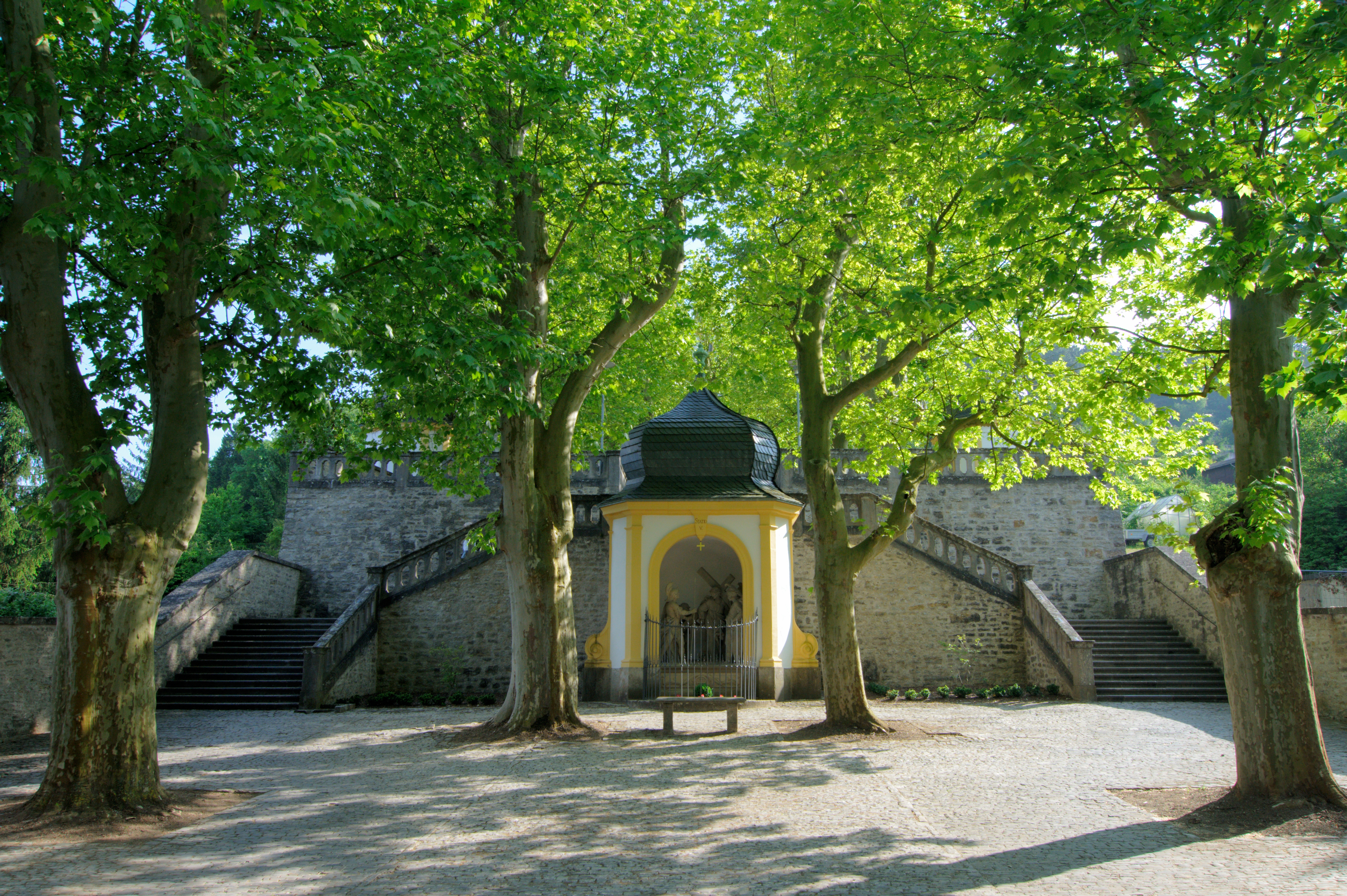 One of the stations of the Cross leading up to Würzburg's Käppele pilgrimage church